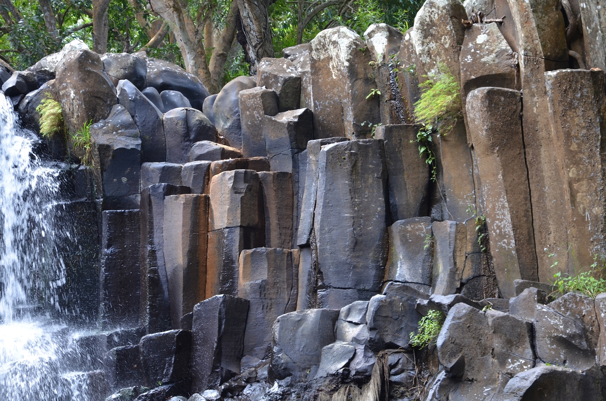 Columns of basalt lava at Rochester Falls in Mauritius. The columns are about 50 centimetres tall. The lava is part of the island's Intermediate Series of volcanic rocks, which are estimated to be between 3.5 and 1.6 million years old.